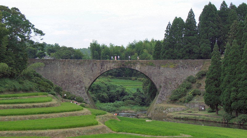 Tsujun Bridge (Tsujun-kyo) in Yamato, Kumamoto, Japan.